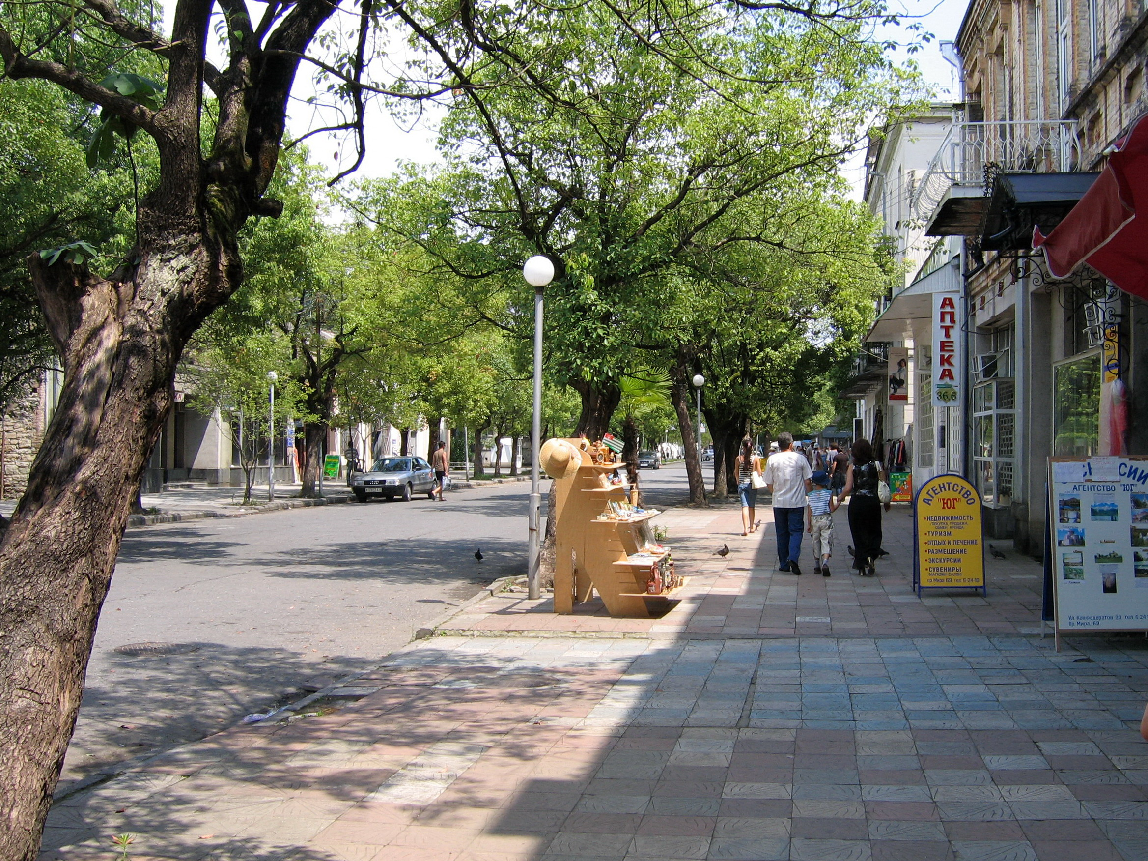 Prospect Mira.Sukhum. Abkhazia